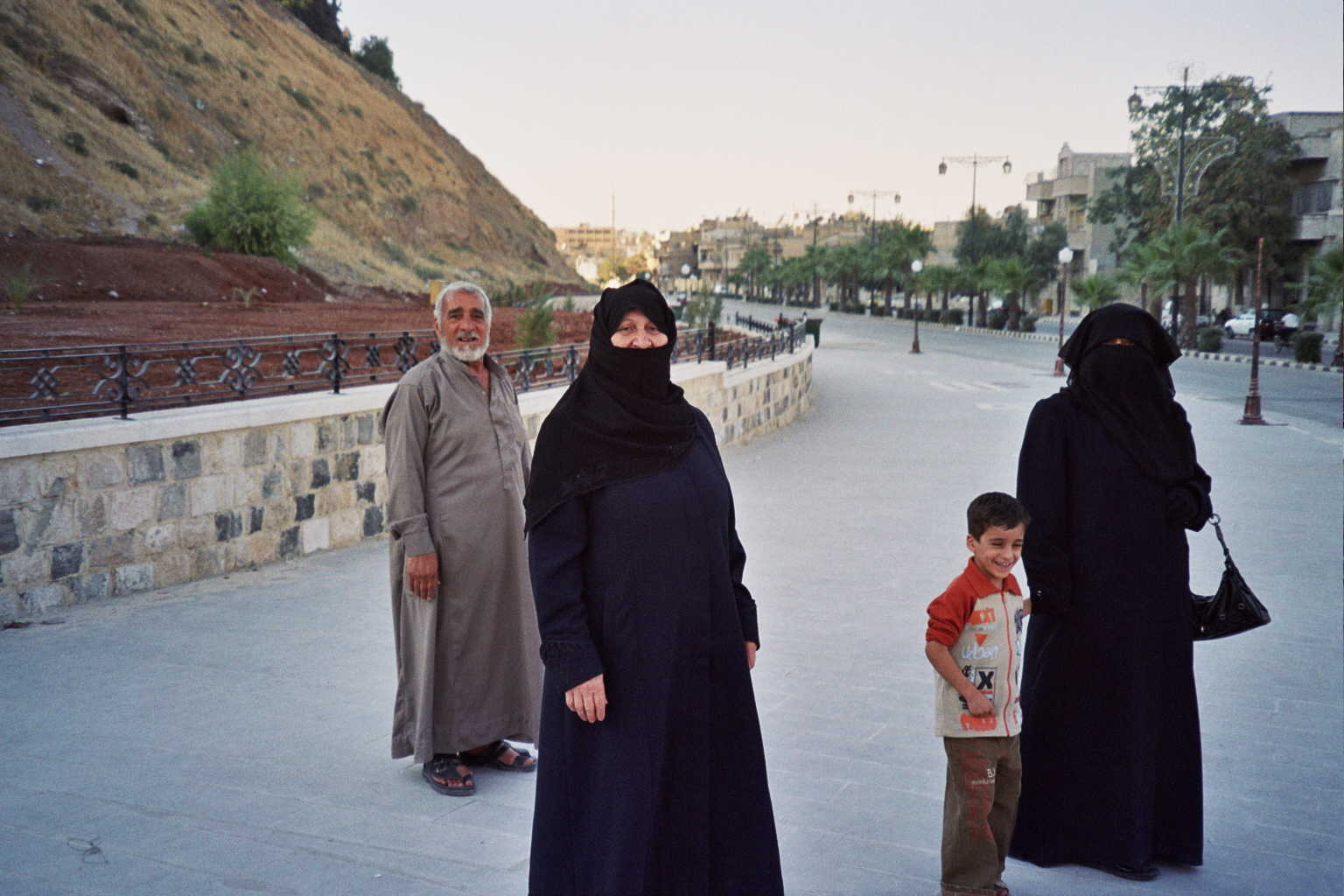 the same family as in the last photo. the youngest wife said she didn't want her picture taken, so she stepped off to the side.